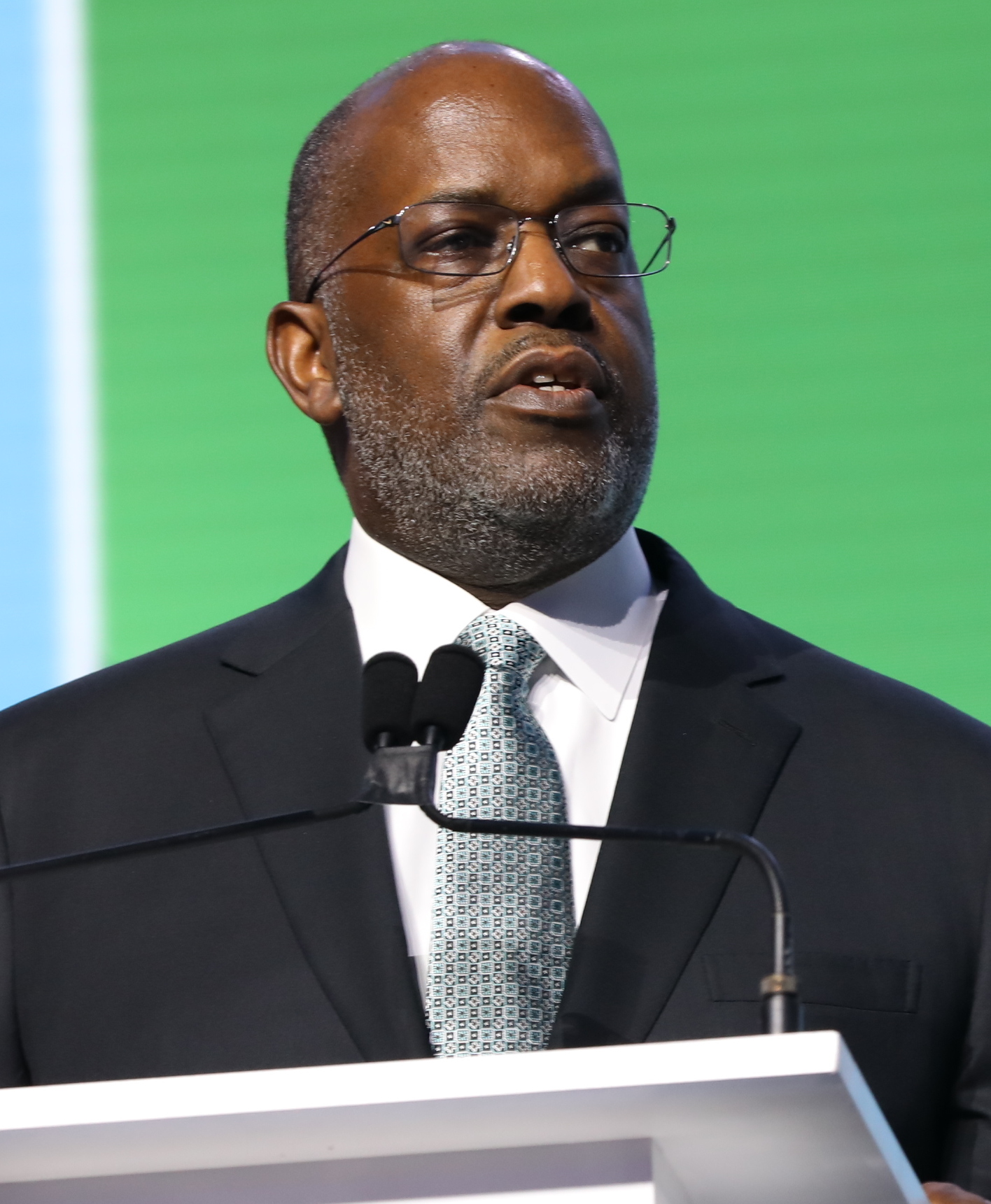 Credit: Global Climate Action Summit, Nikki Ritcher Photography